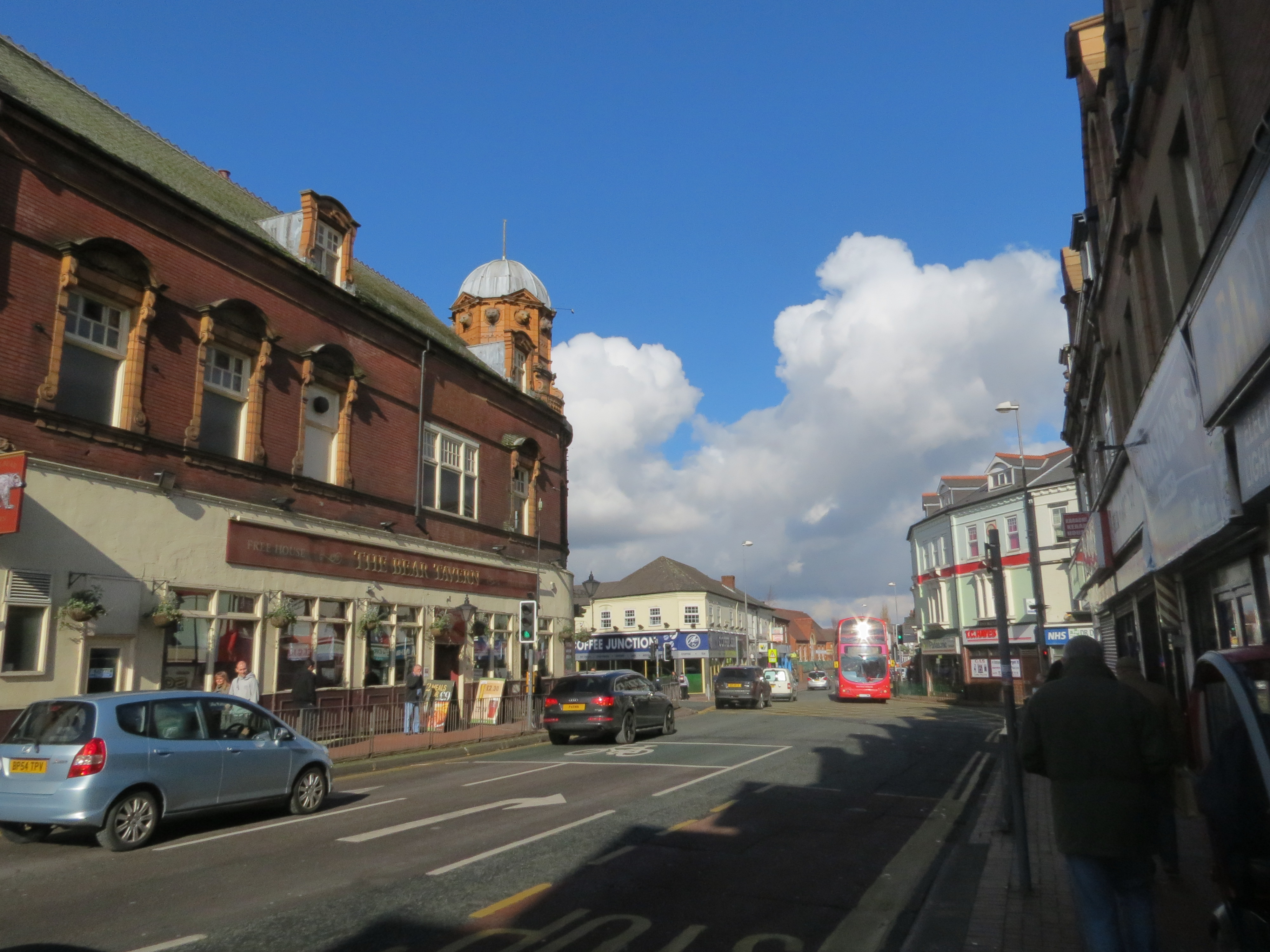 Bearwood (Smethwick) looking north along Bearwood Road at the junction with Abbey Road. Major landmarks are the Bear Tavern (left), The Causeway (middle distance right) and Bearwood Junior and Infant School (far left).